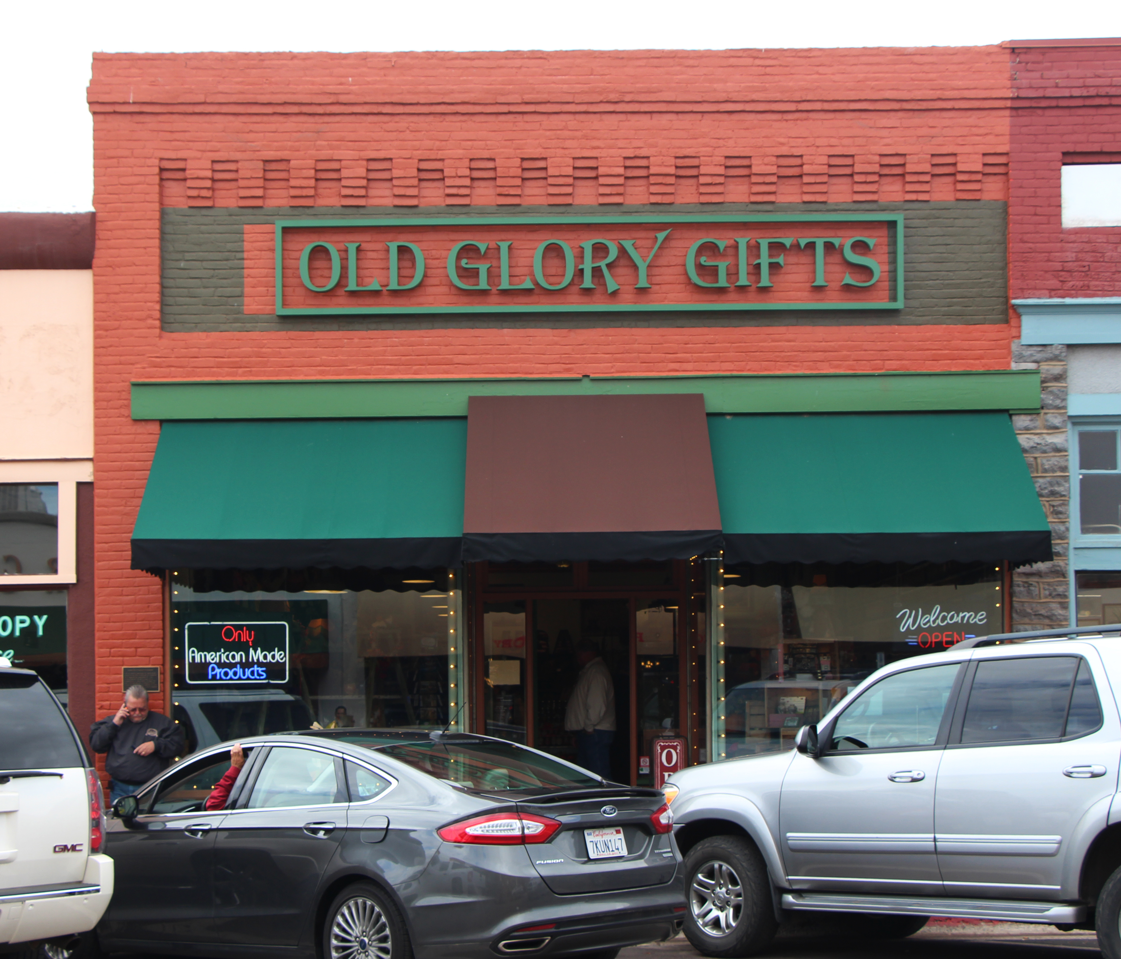 Lebesch Confectionery, 213 W. Route 66, Williams, AZ